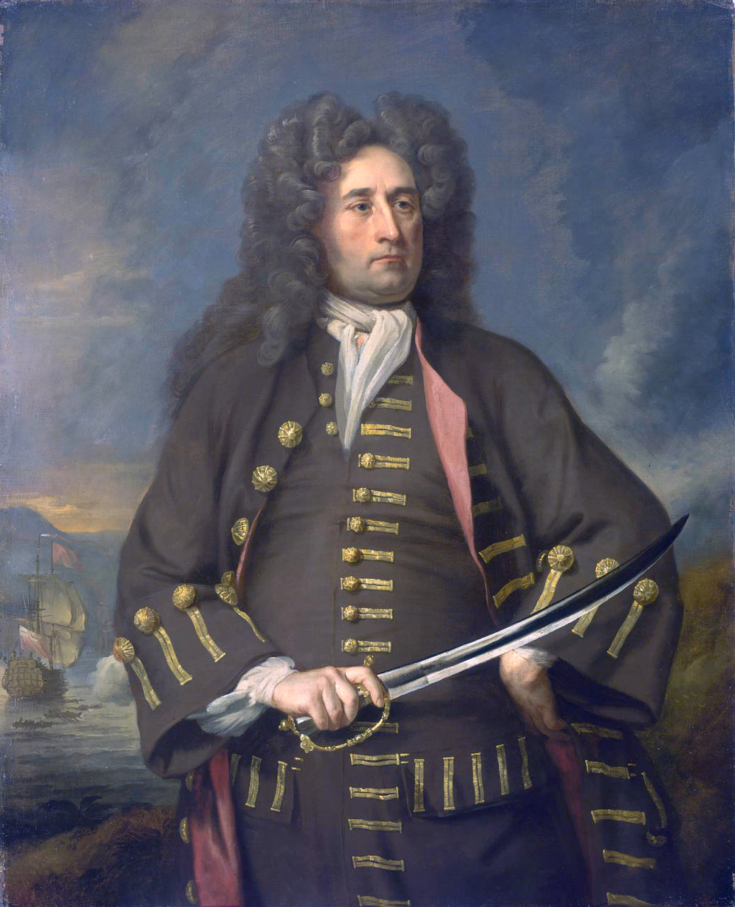 Thomas Hopsonn (1642-1717)